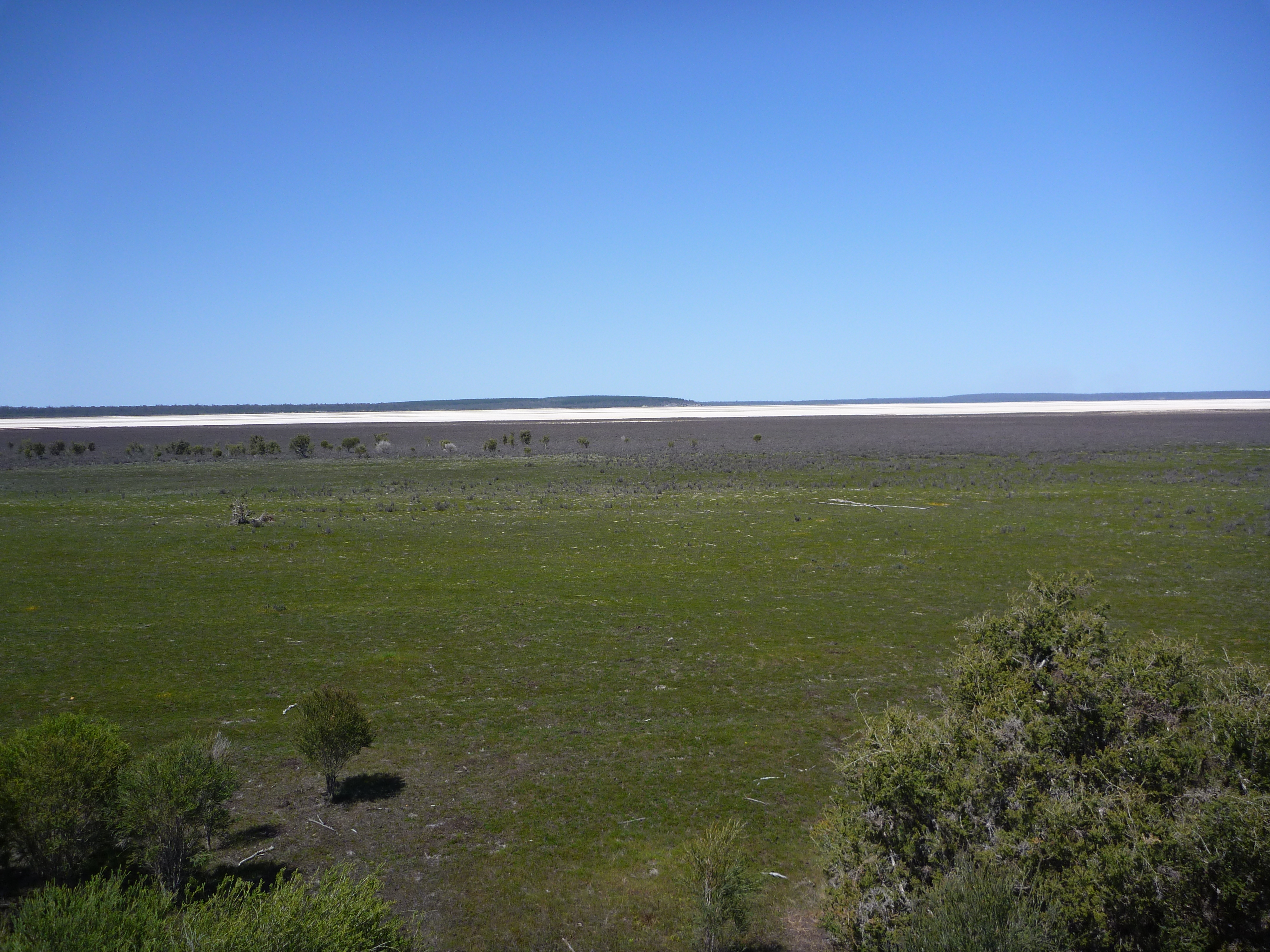 Photo of Lake Muir taken from observatory at north end ear Muirs Highway in October 2010